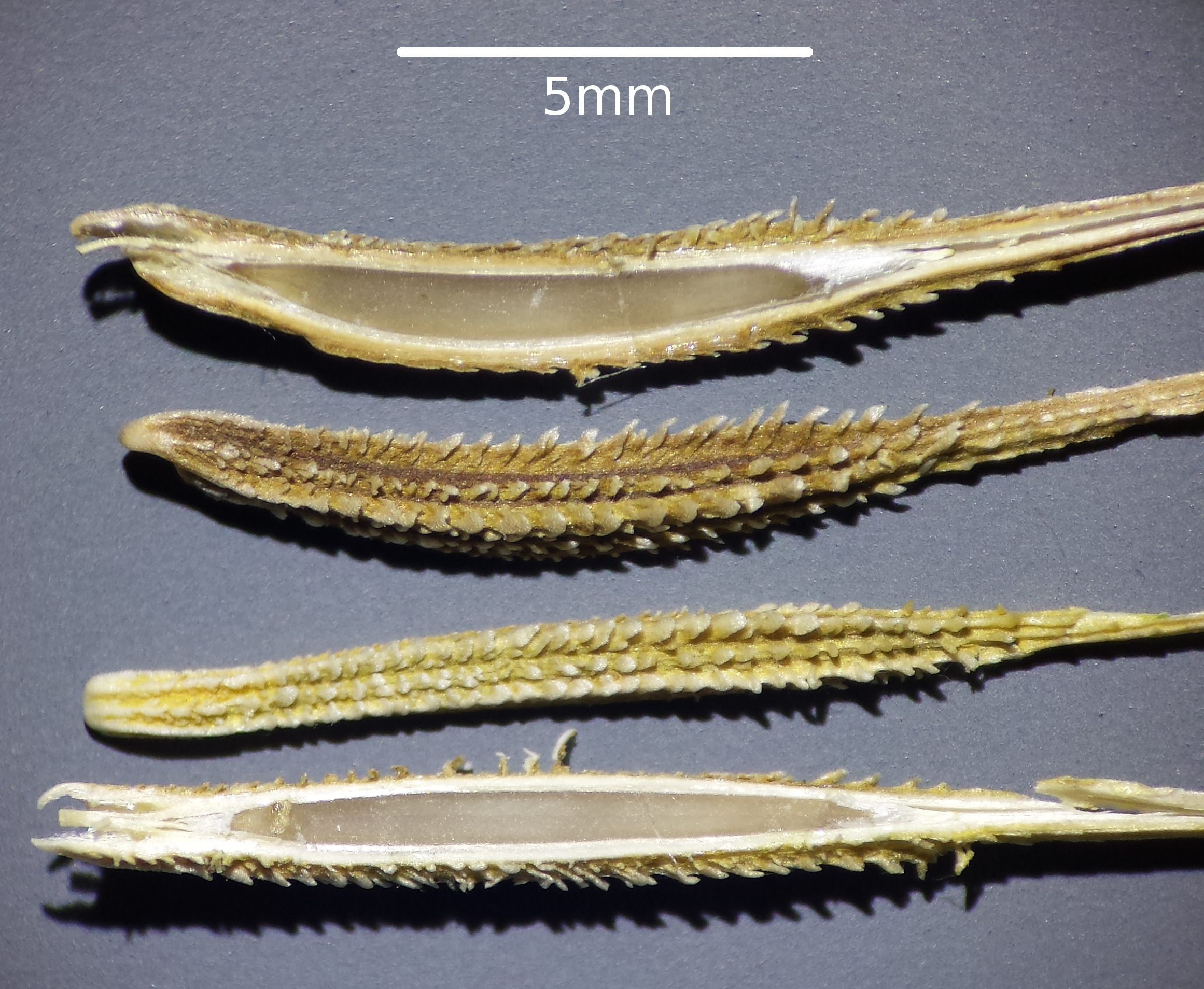 Achenes cut through Taxon: Tragopogon dubius (sensu Fischer et al. EfÖLS 2008) Location: New Danube, Floridsdorf, Vienna - ca. 160 m a.s.l. Habitat: ruderal area next to way on dam